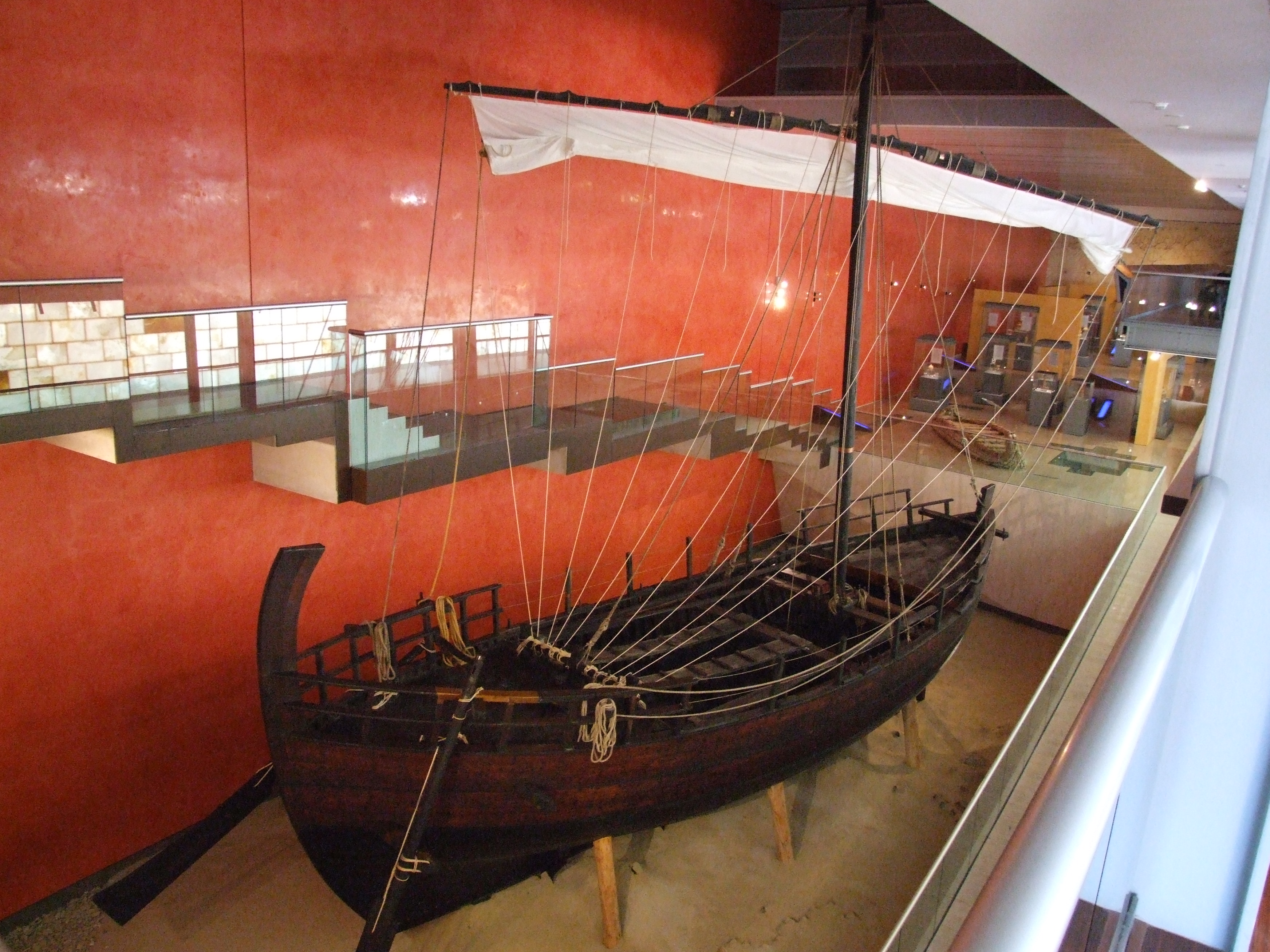 Treasures of THALASSA Museum, Ayia Napa